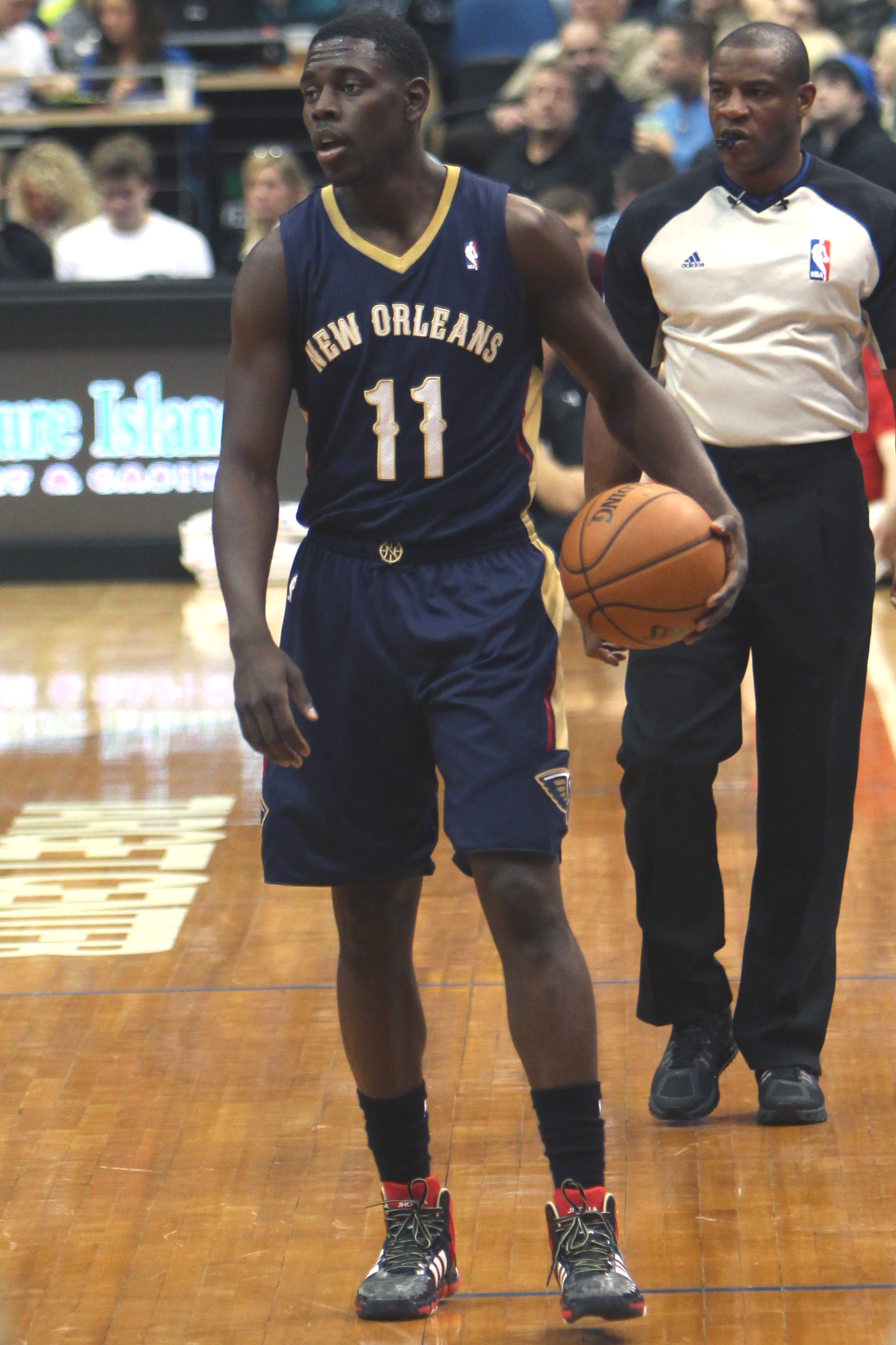 Jrue Holiday at the Target Center